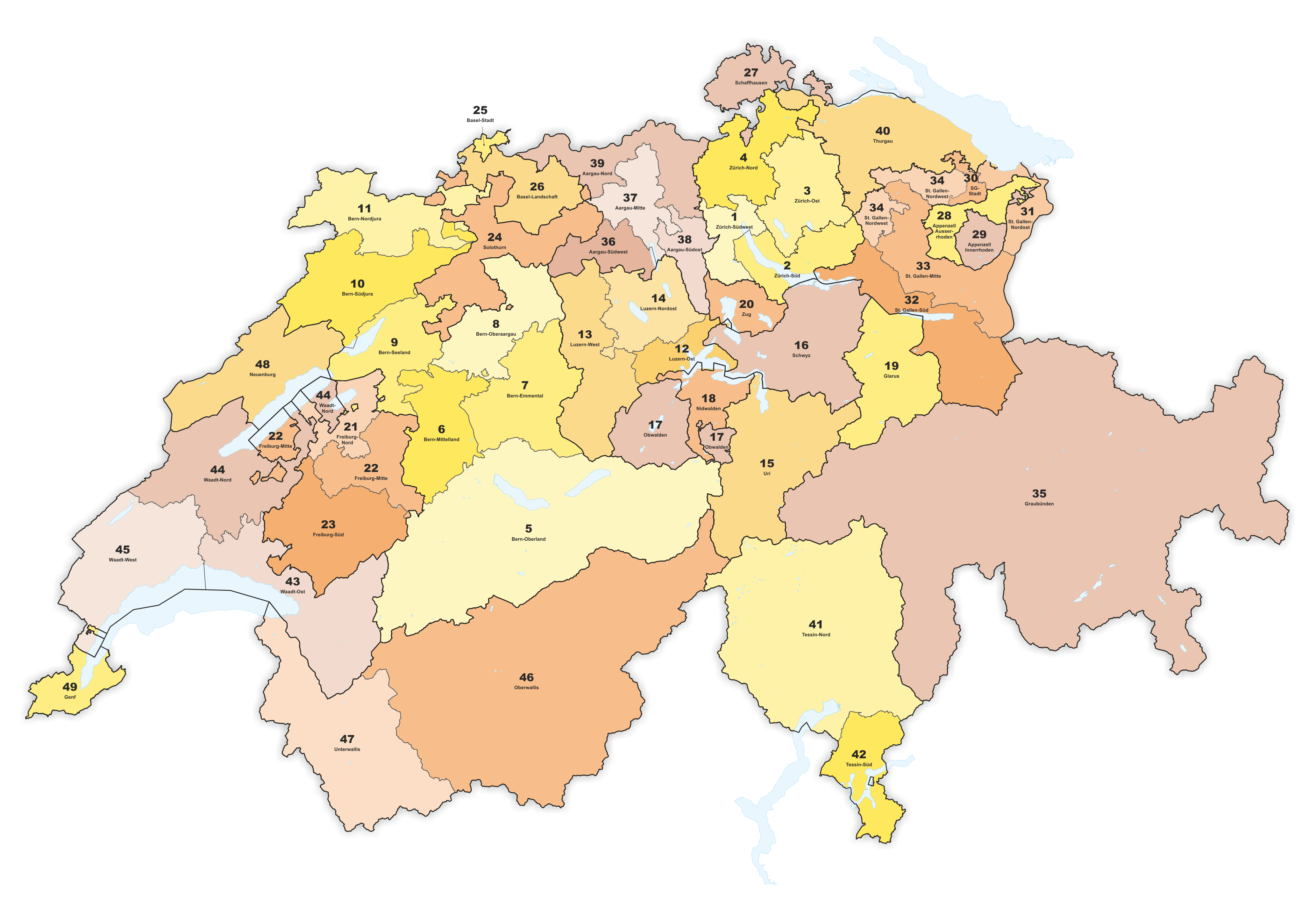 Swiss national council constituencies from 1902 to 1908